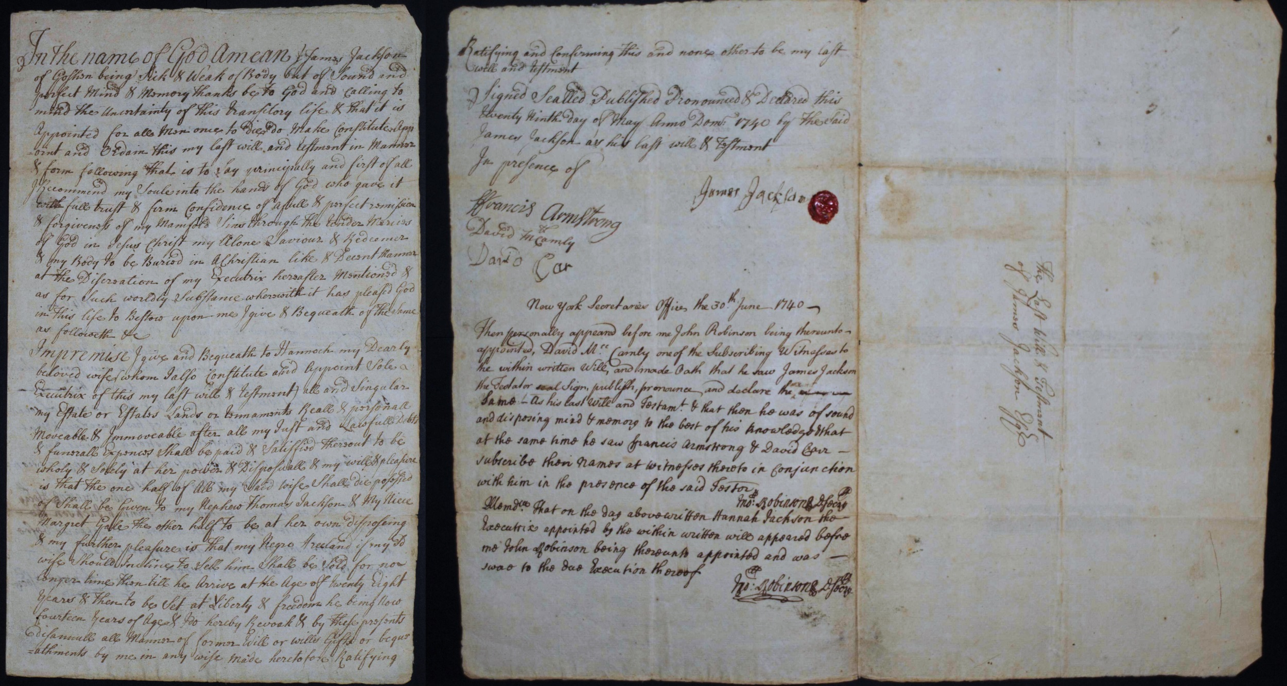 James Jackson was one of the VERY early residents of Goshen, NY